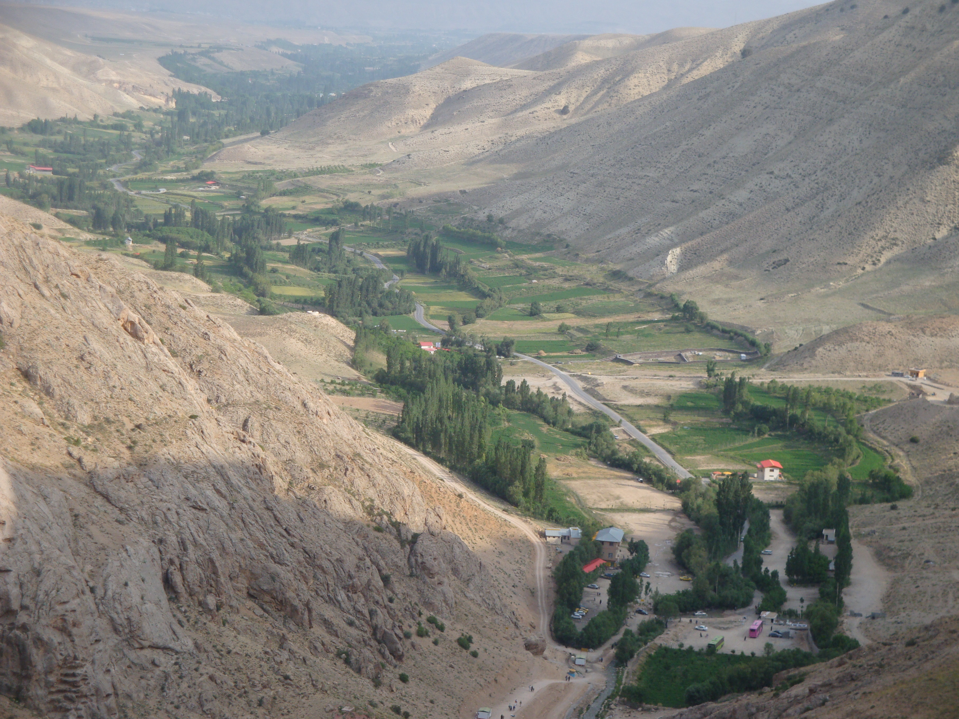 Tangeh Vashi, Tehran Province of Iran, Summer 2011. Photo: Abbas Afsharibakhsh / Persian Dutch Network